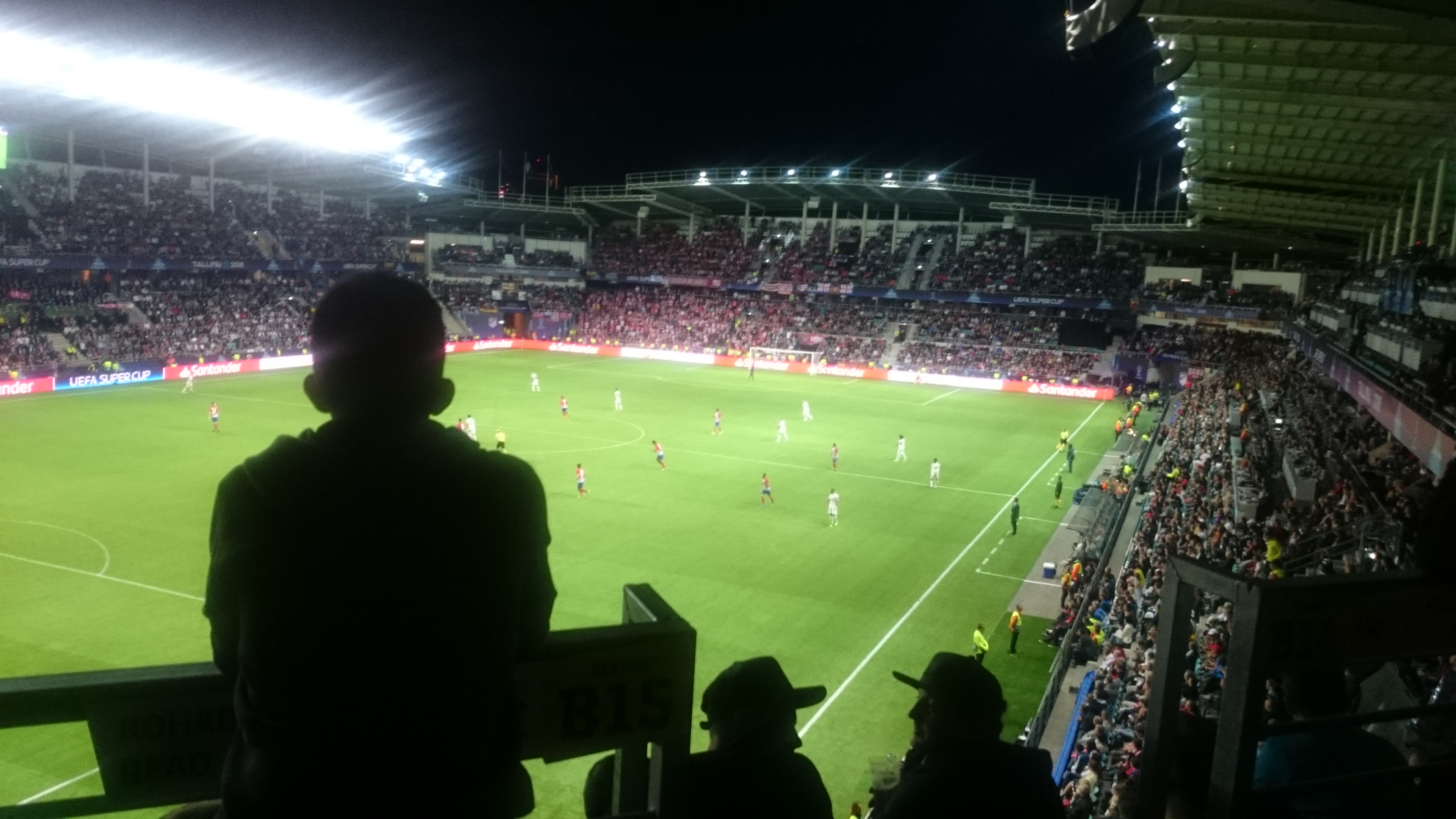 A. Le Coq Arena on 15.08.2018, uefa super cup.